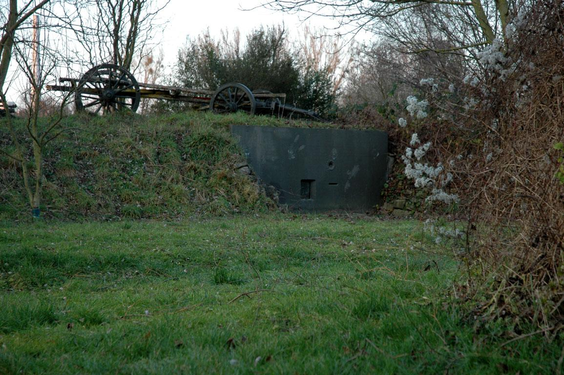 bunker 138 of the Neckar-Enz-Stellung in Bad Friedrichshall-Jagstfeld.